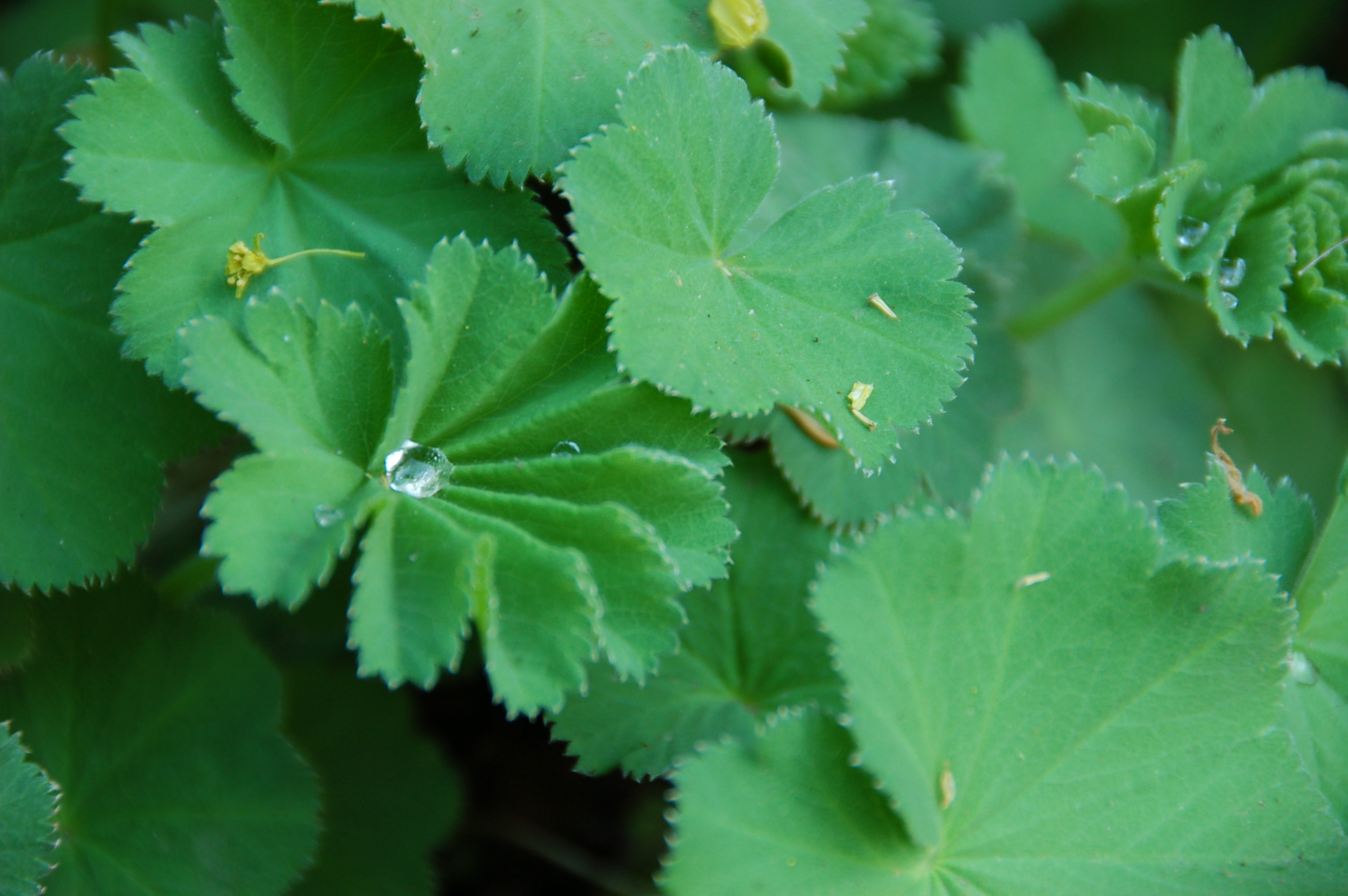 Alchemilla monticola